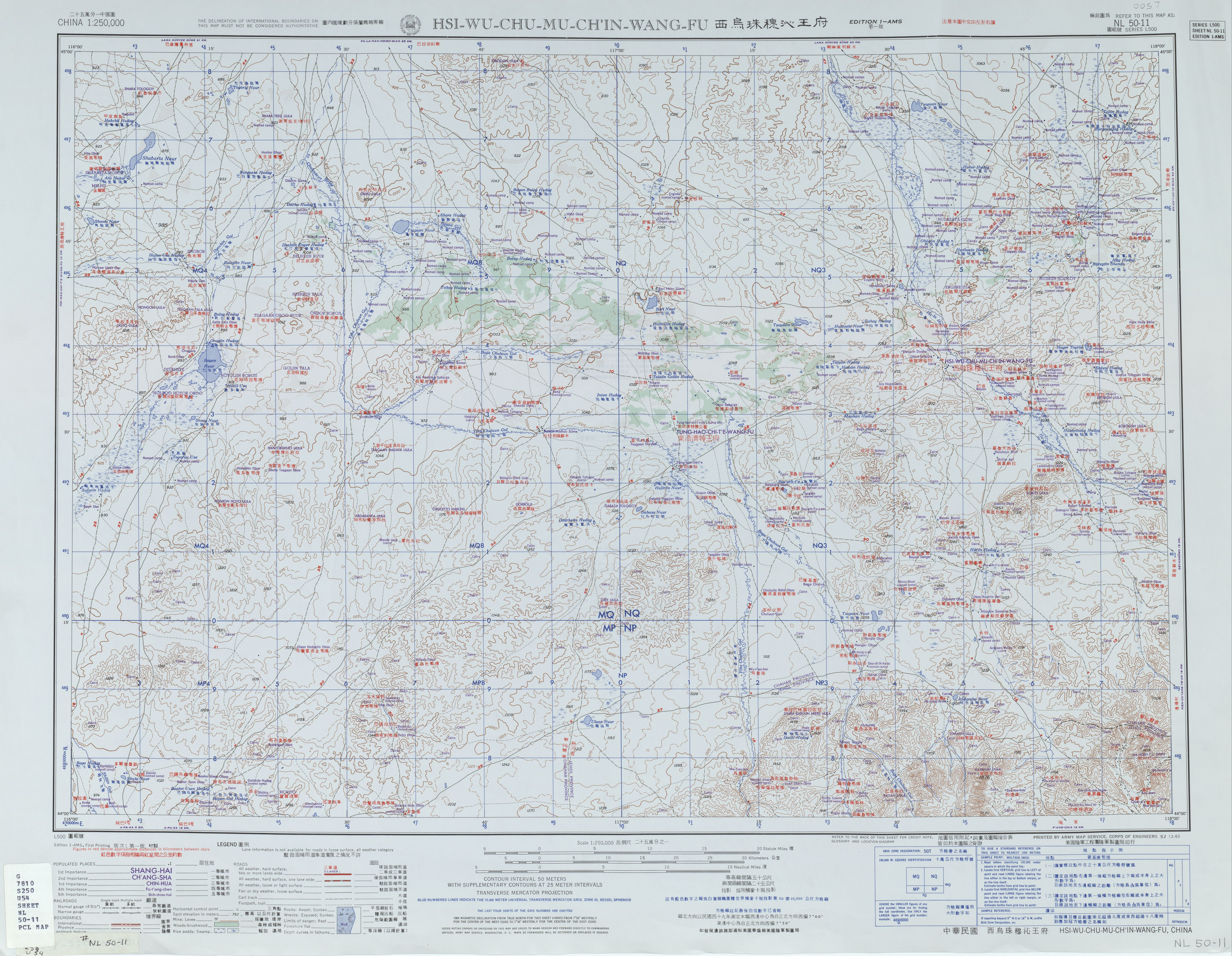 China AMS Topographic Maps